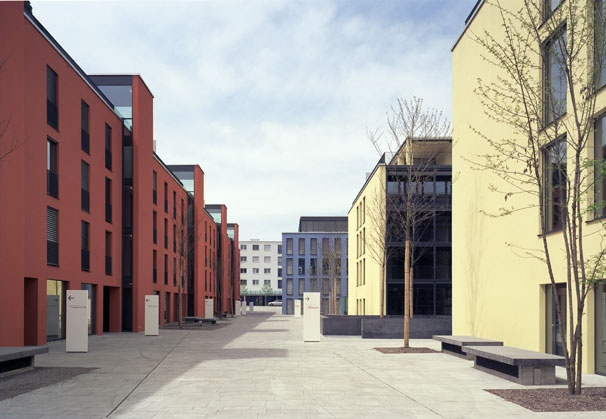 Huob Offices in Pfäffikon SZ